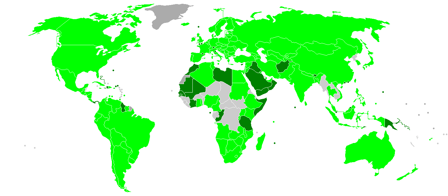 41st Chess Olympiad participating countries. Countries that participated only in the open division are shown in dark green, while the rest of the participants are shown in light green.